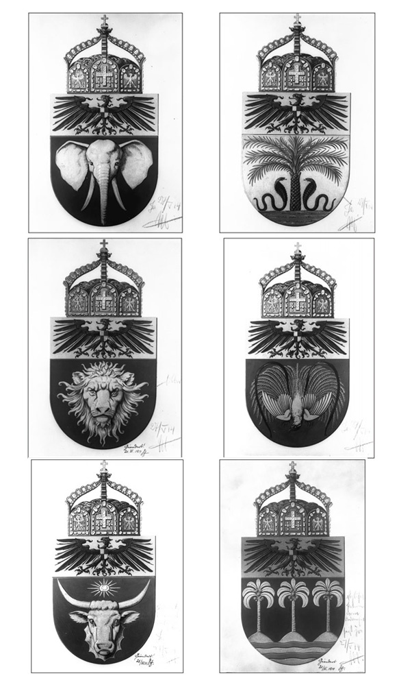 Proposed coat of arms for the German colonies, 1914, German Empire